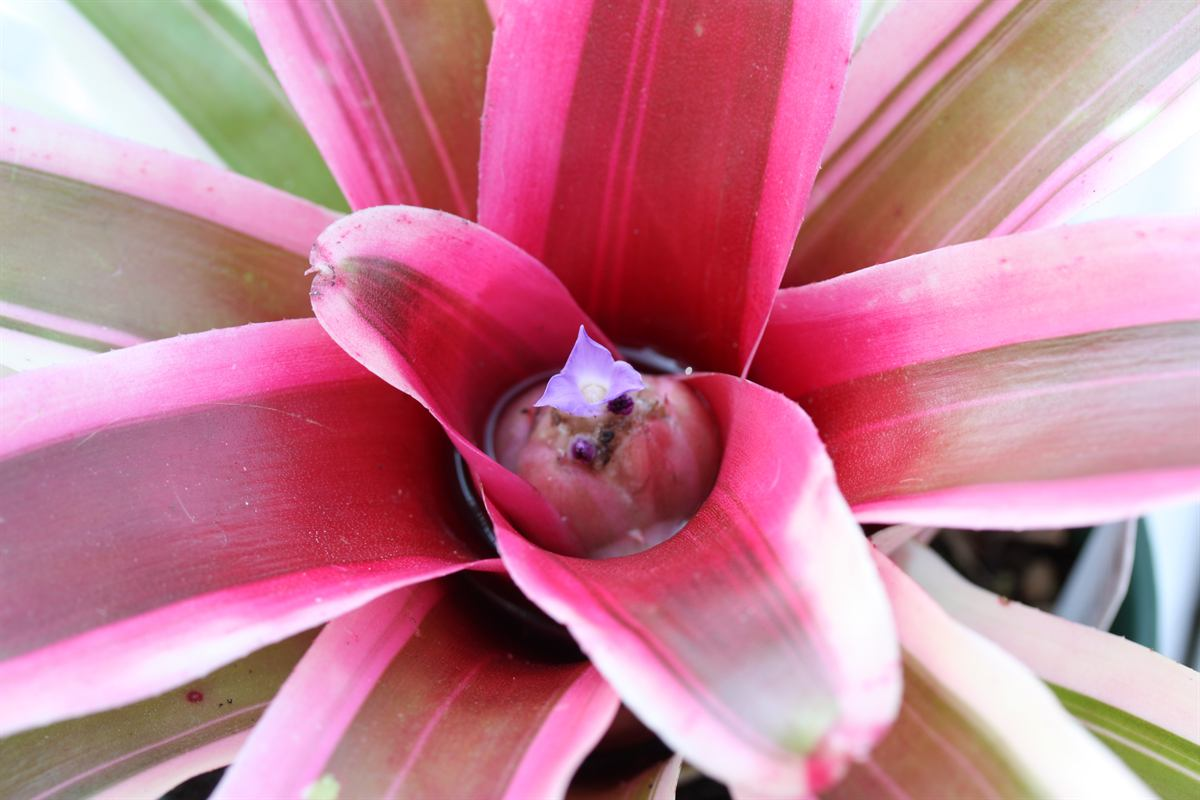 Plants/Bromeliad/Neoregelia/Annick